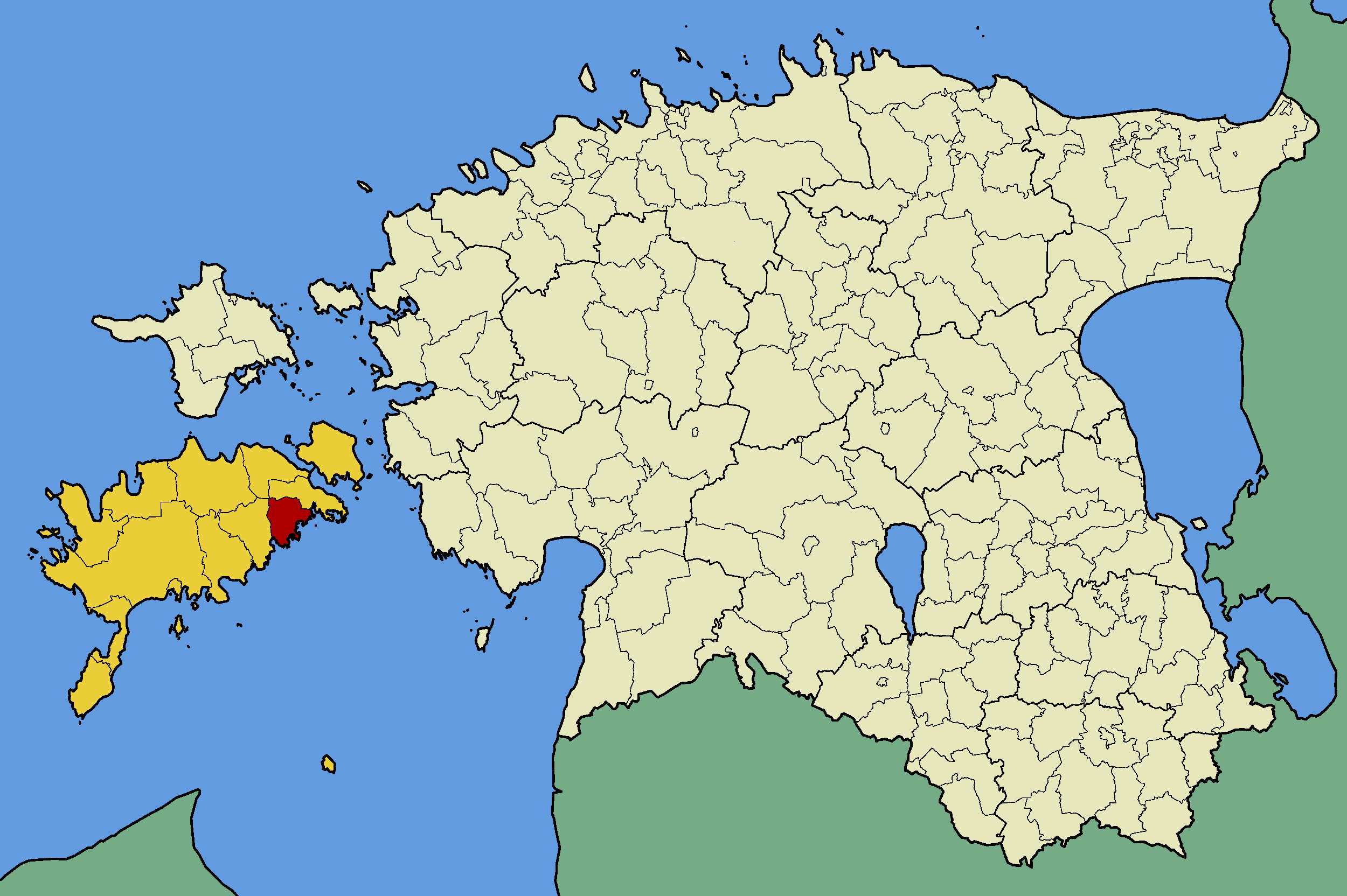 Map of Estonia with borders of municipalities (parishes). Saare county and Laimjala municipality emphasized.